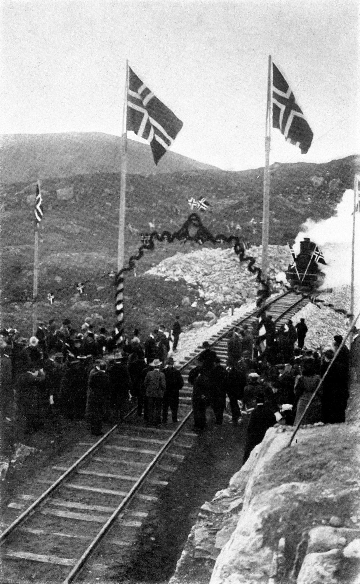 The finishing of the railway from Oslo to Bergen. The ceremony at the completion of the track.